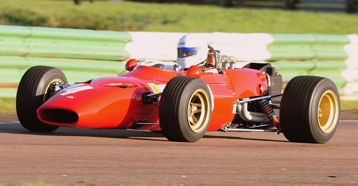 A Ferrari Dino 166 Formula Two car, in testing at Mallory Park, October 2008.